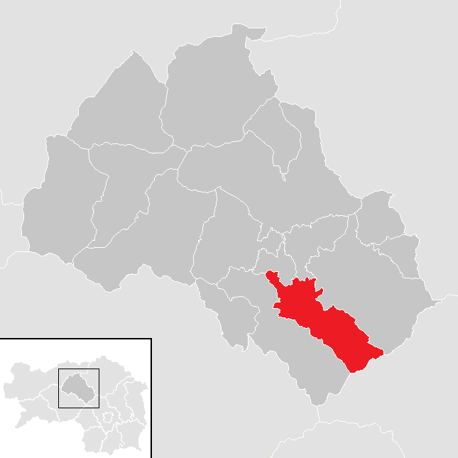 District Leoben